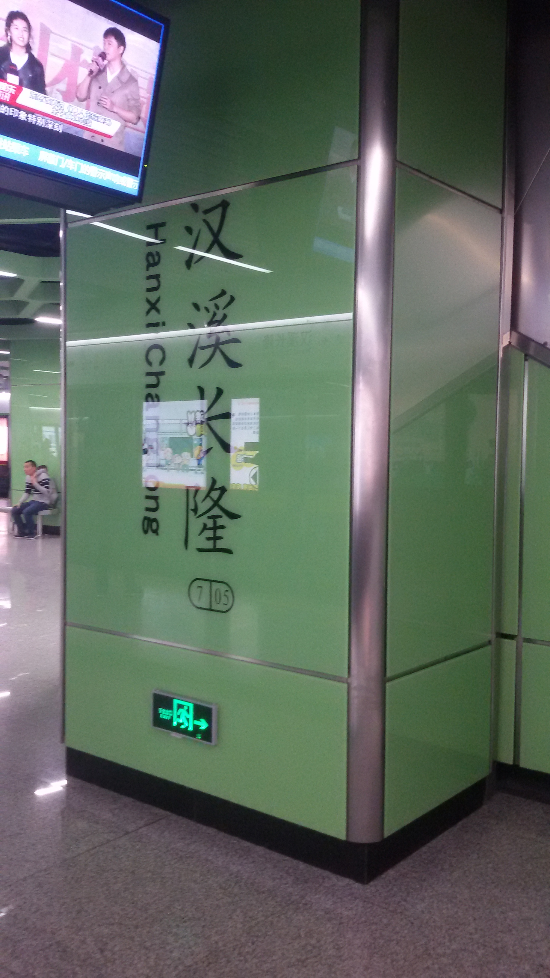 WORD on PILLAR for Line 7 in Hanxi Changlong Station, Guangzhou Metro